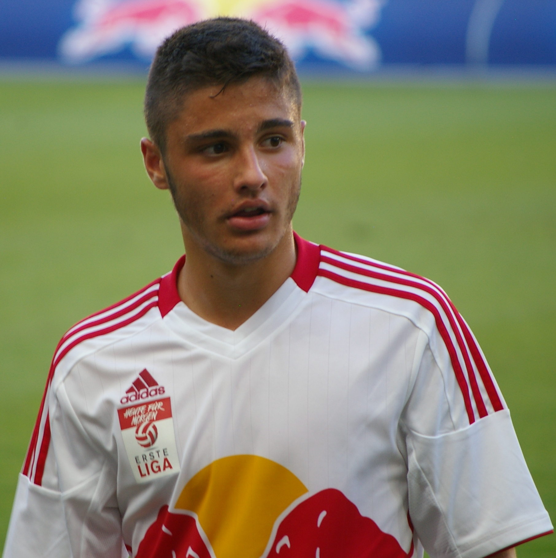 league match (2nd league)